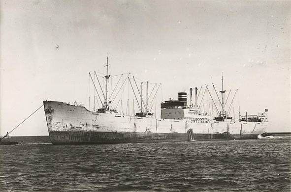 Norwegian cargo vessel M/S Dicto in Copenhagen, E.B. Aaby's Rederi A/S, Oslo. Callsign: LKCR D.w.t.: 9600 Br.t.: 5235 Lloyds Register 1962-63 Nr 58807